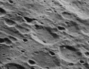 Oblique view of Tiling (center), on the far side of the moon, facing west.